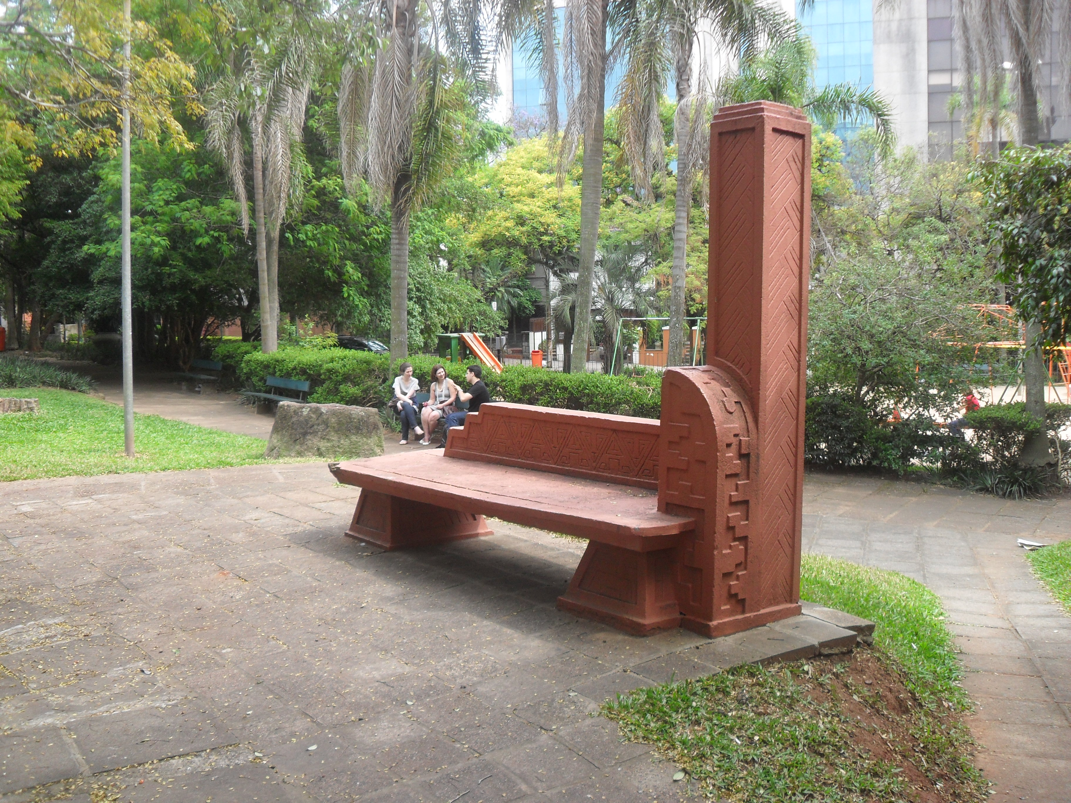 Dr. Mauricio Cardoso Square, in Porto Alegre, Rio Grande do Sul, Brazil.